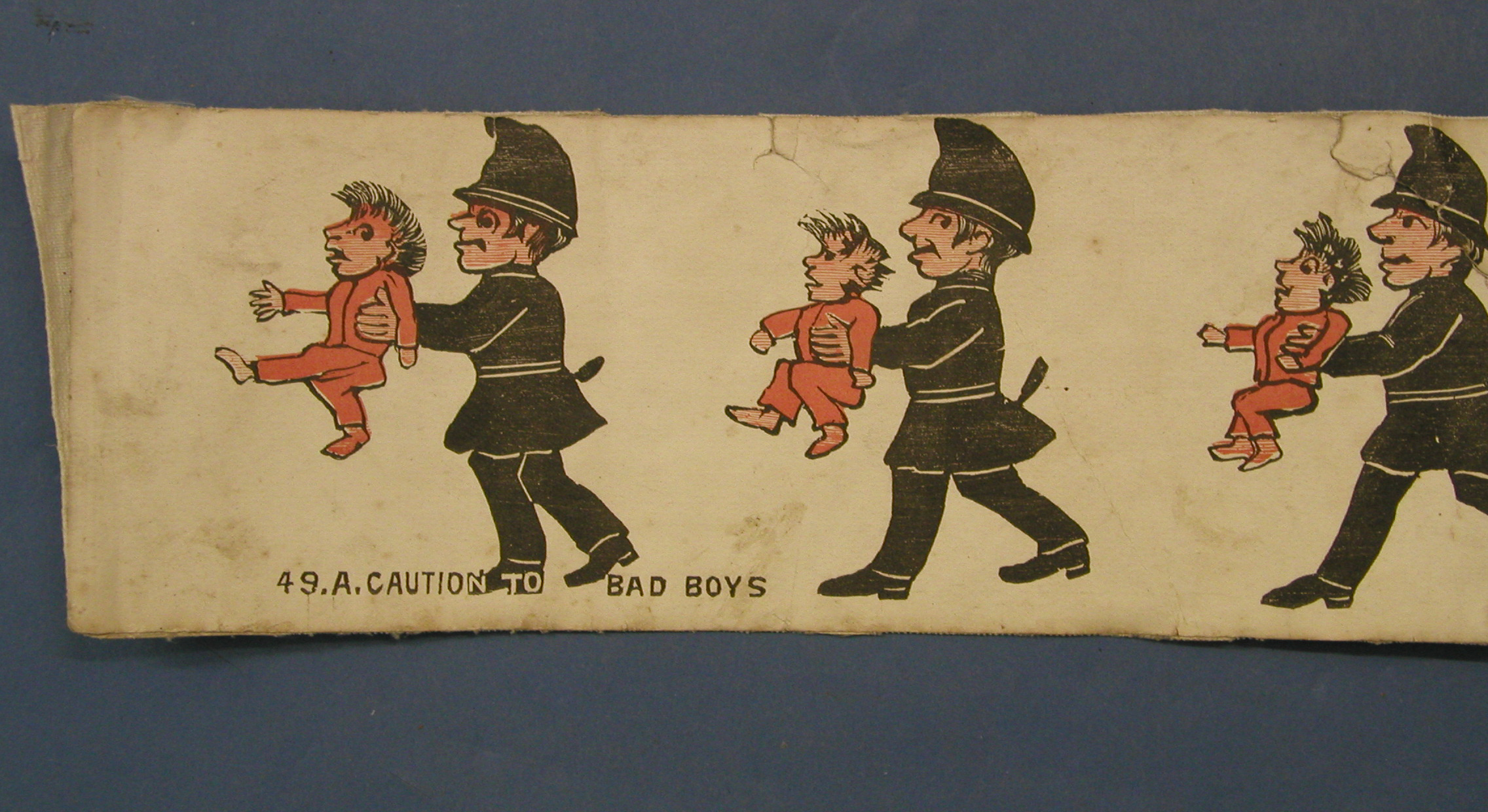 Zoetrope (wheel of life) optical toy